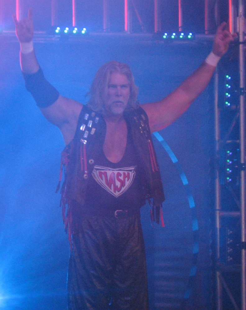 Big Sexy Kevin Nash